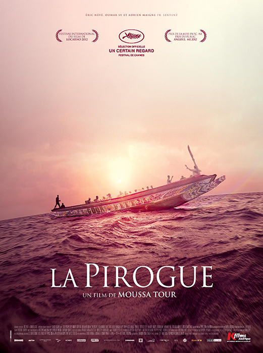 Poster of the movie The Pirogue (Q3211653)